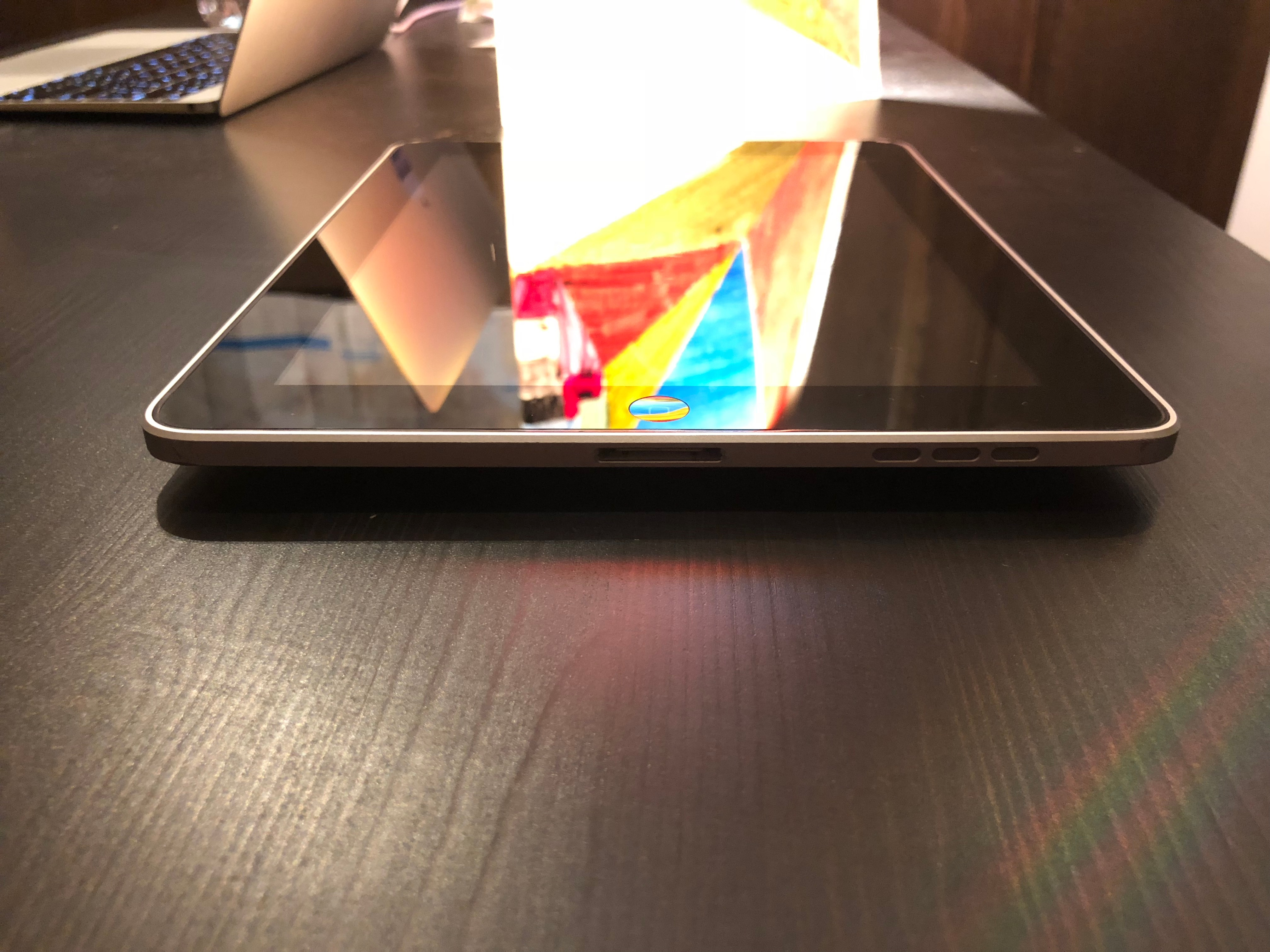 Photo of the first generation iPad, showing its charging port and audio output grilles.